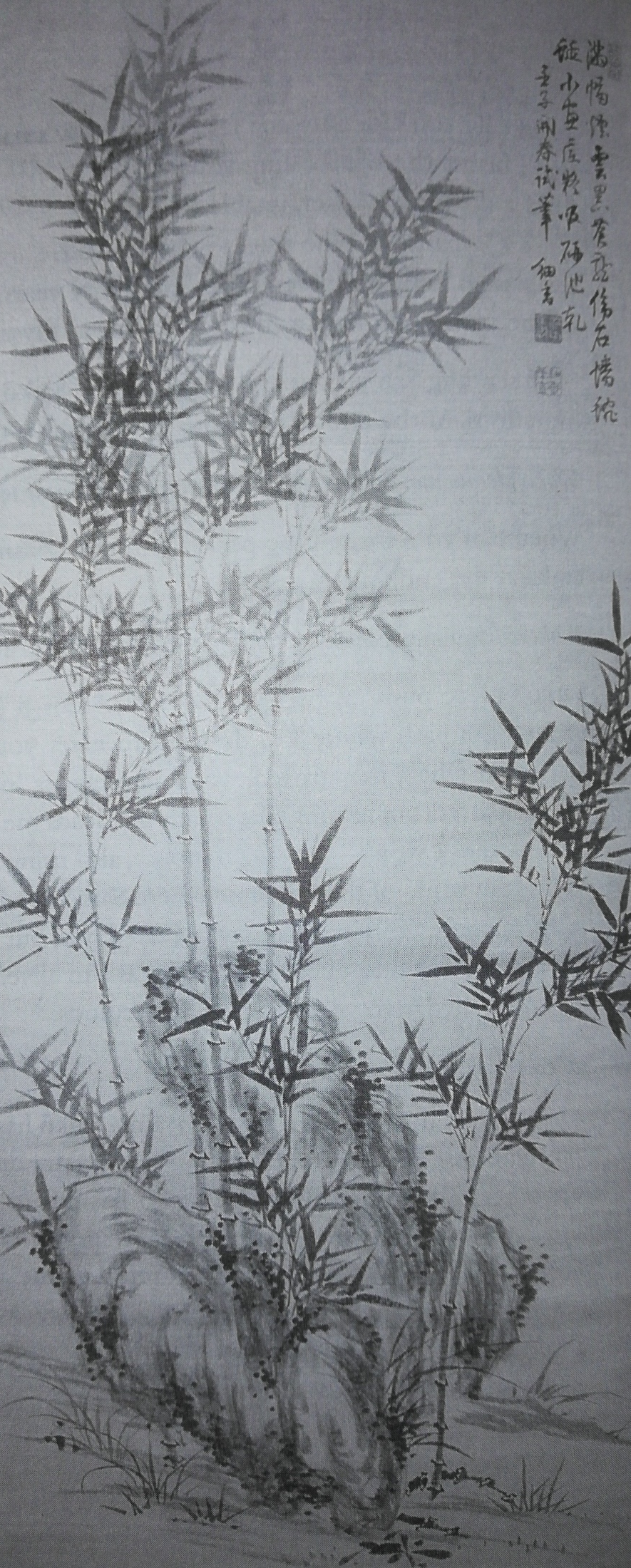 Bambù e rocce. Ema Saikō all'età di 65 anni. Inchiostro su seta, 132x58cm, Ema Shōjirō Collection.